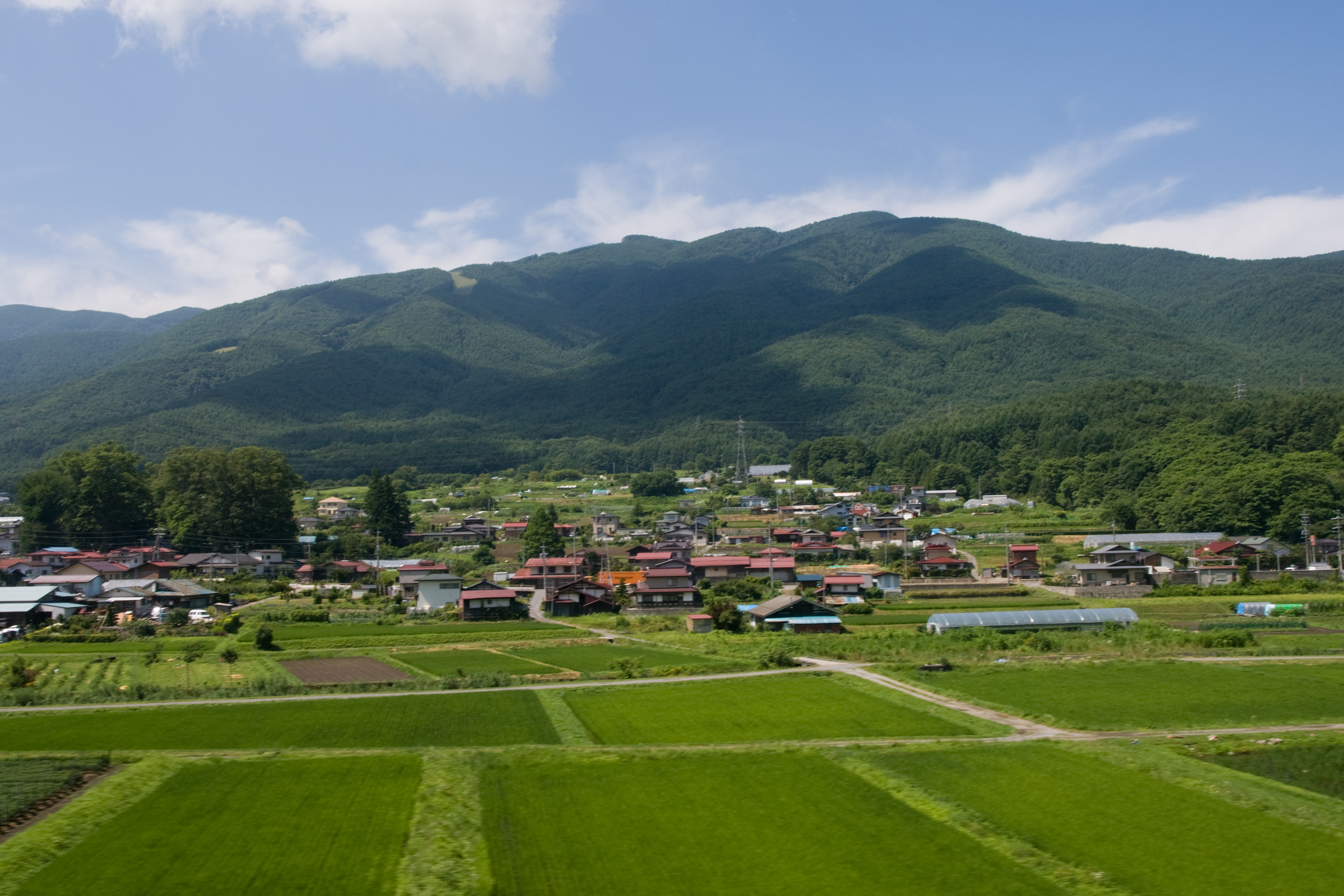 Mt.Nyukasa, from Suzuranno-sato Station, Nagano, Japan.